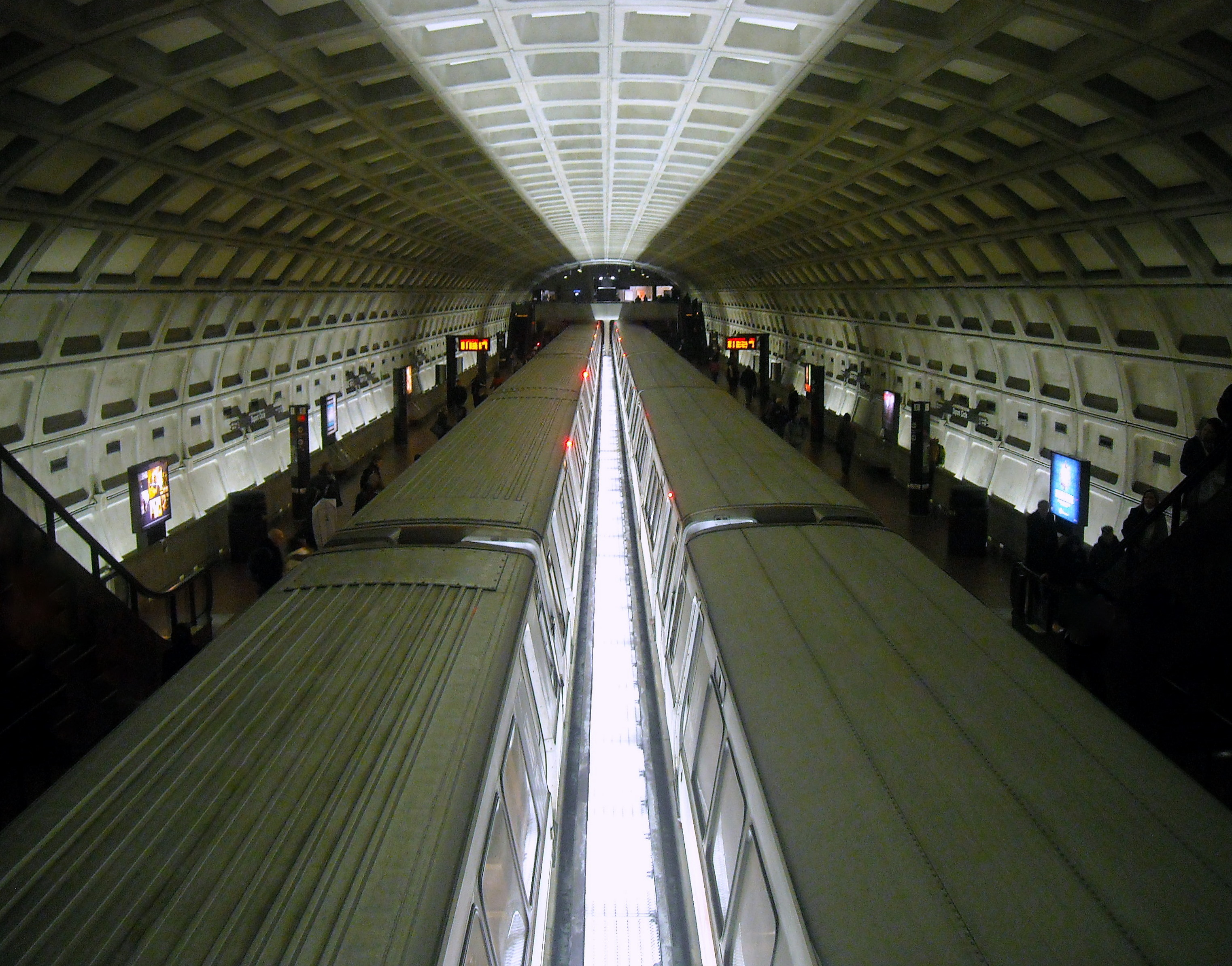 Metro station located in the Dupont Circle neighborhood of Washington, D.C.